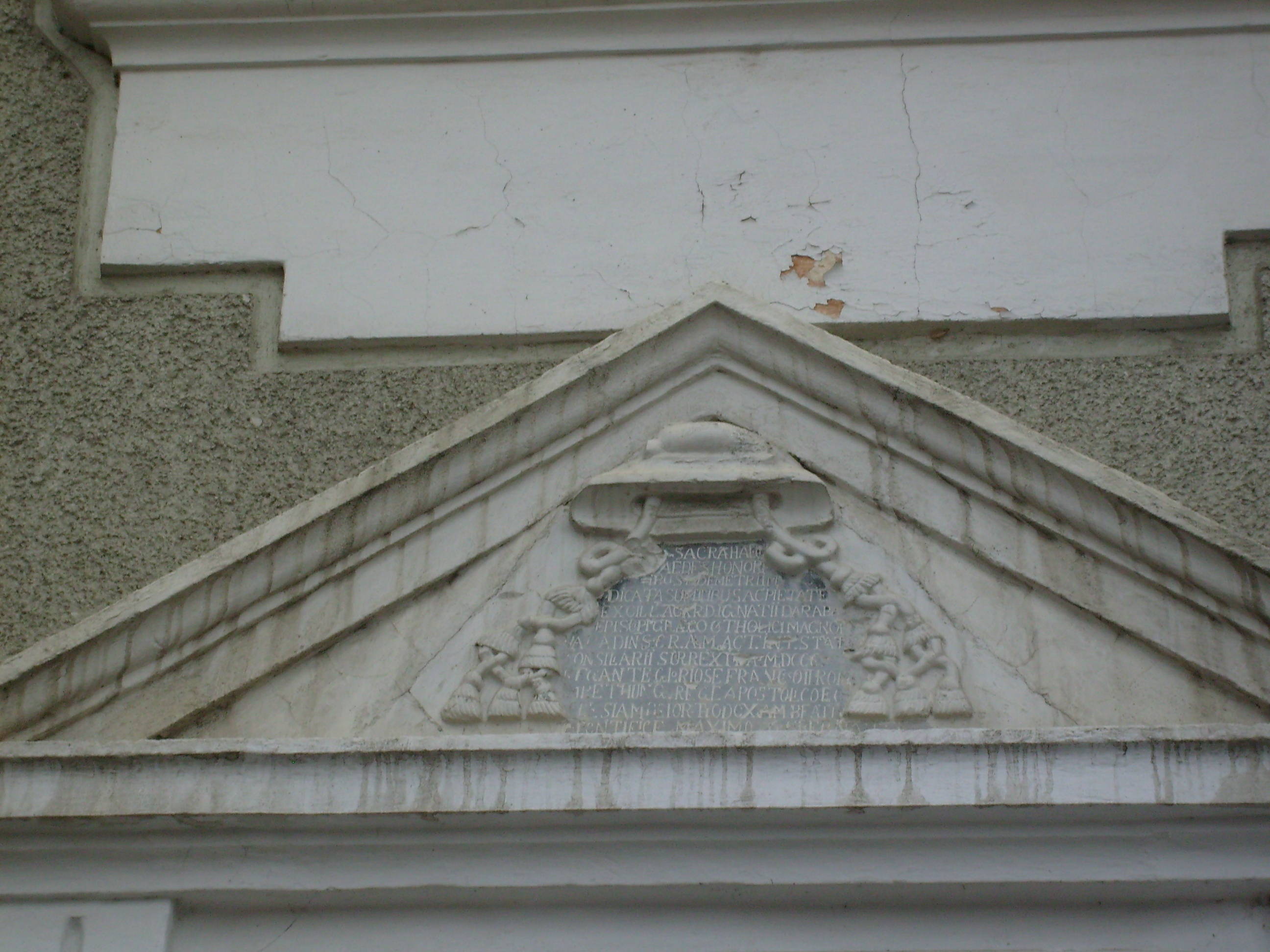 Greek Catholic church in Beius. Entry inscription from the year 1800 (in latin): This church was errected under Bishop Ignatius Darabanth of Magnovaradinum (present day Oradea).